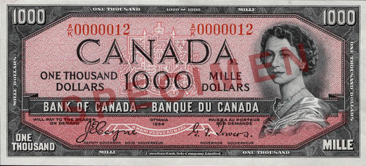 1954 Series $1000 banknote, obverse, original "Devil's Head" printing. The portrait of Elizabeth II is based on a 1951 photograph by Yousuf Karsh.